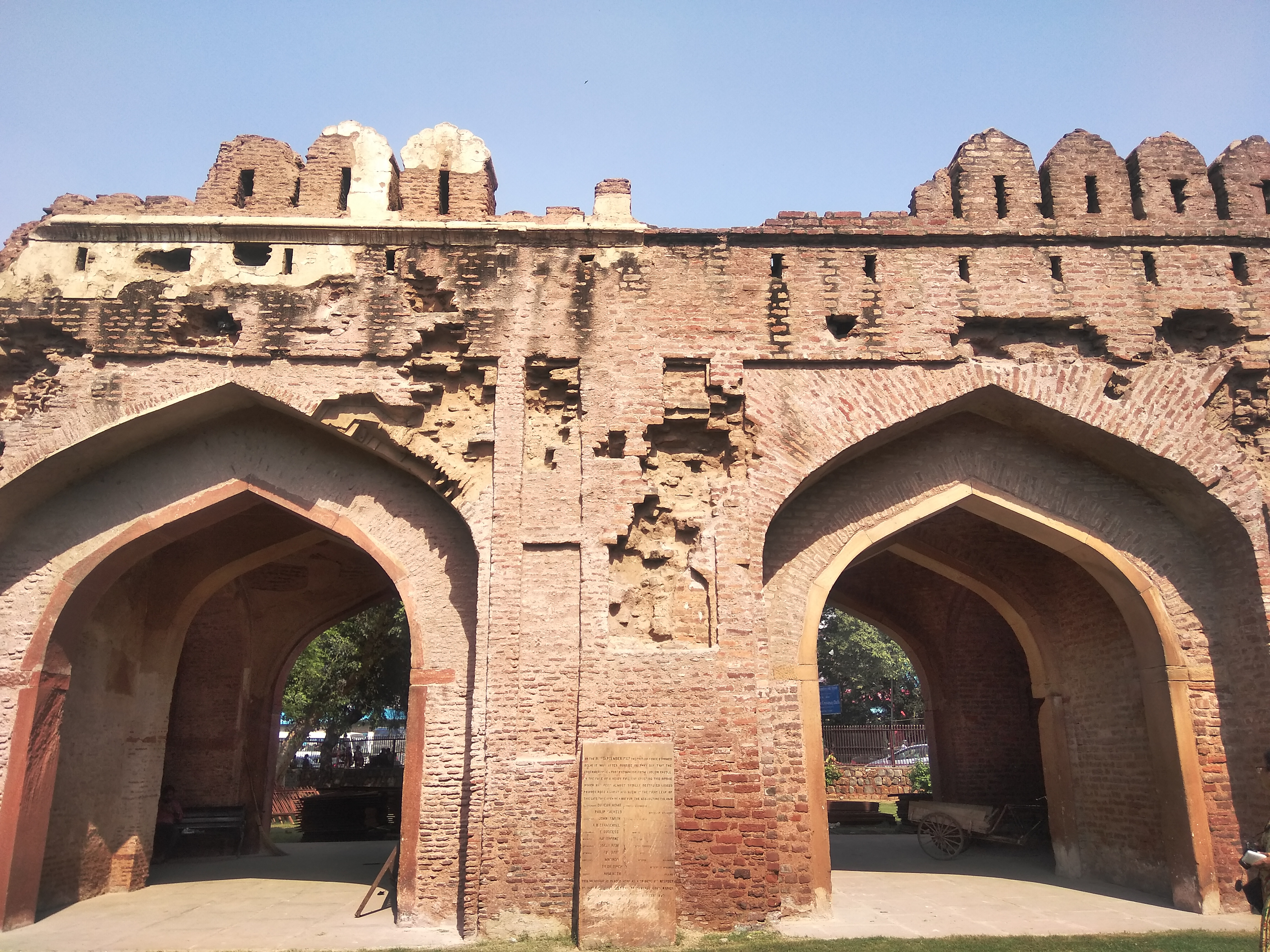 One of the fourteen gateways of the city of Shahjahanabad (Delhi) build by Square and circular form.